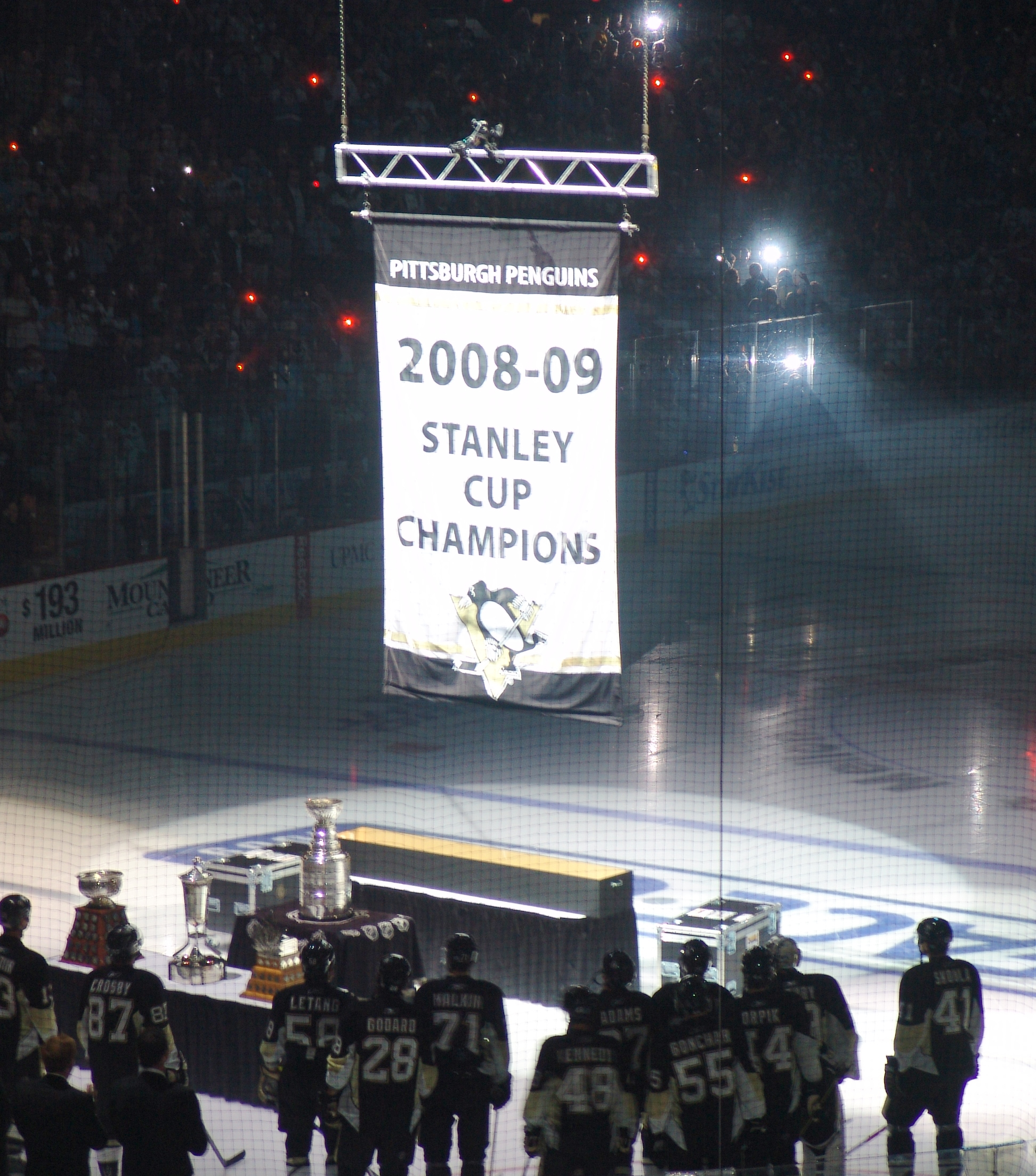 Banner raising ceremony to honor the 2008-09 Stanley Cup Champion Pittsburgh Penguins, October 2, 2009 at Mellon Arena in Pittsburgh, PA.